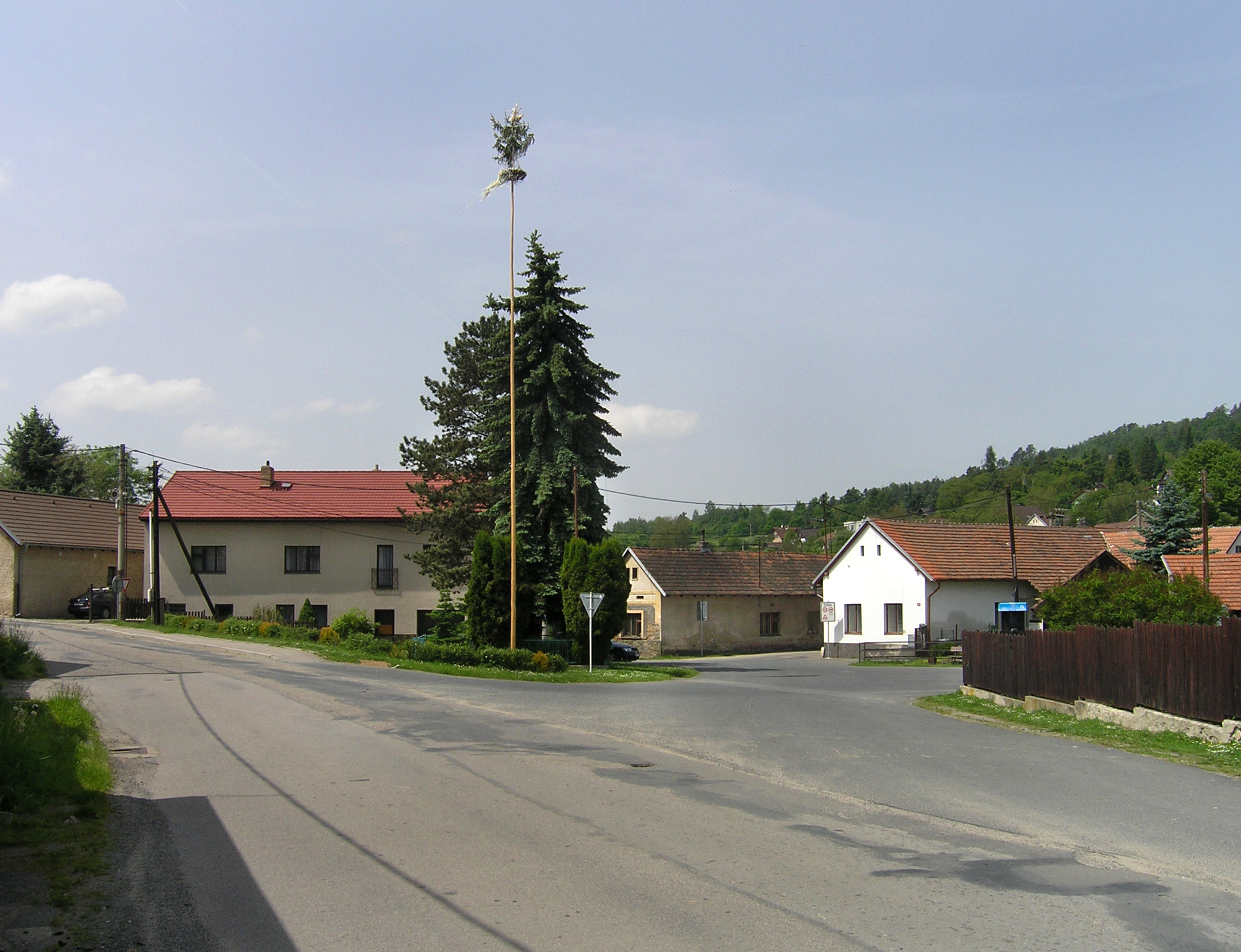 Common in Krhanice, Czech Republic